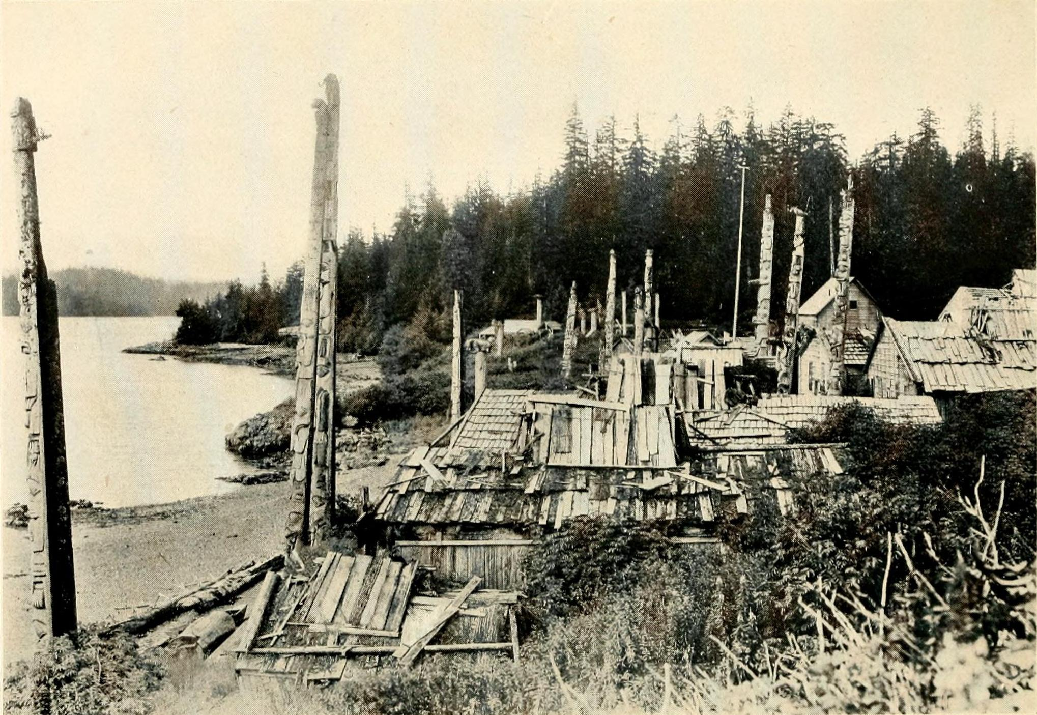 Captioned "Kasa-an"; Old Kasaan on Prince of Wales Island, Alaska, a Haida village abandoned about 1902 when the people relocated to "New Kasaan" (the current city of Kasaan, Alaska) to take jobs in a cannery. The absence of boats and people suggests this photo was taken after the population moved out.